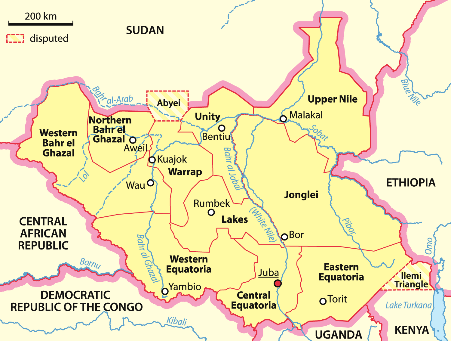 Map of the states of South Sudan